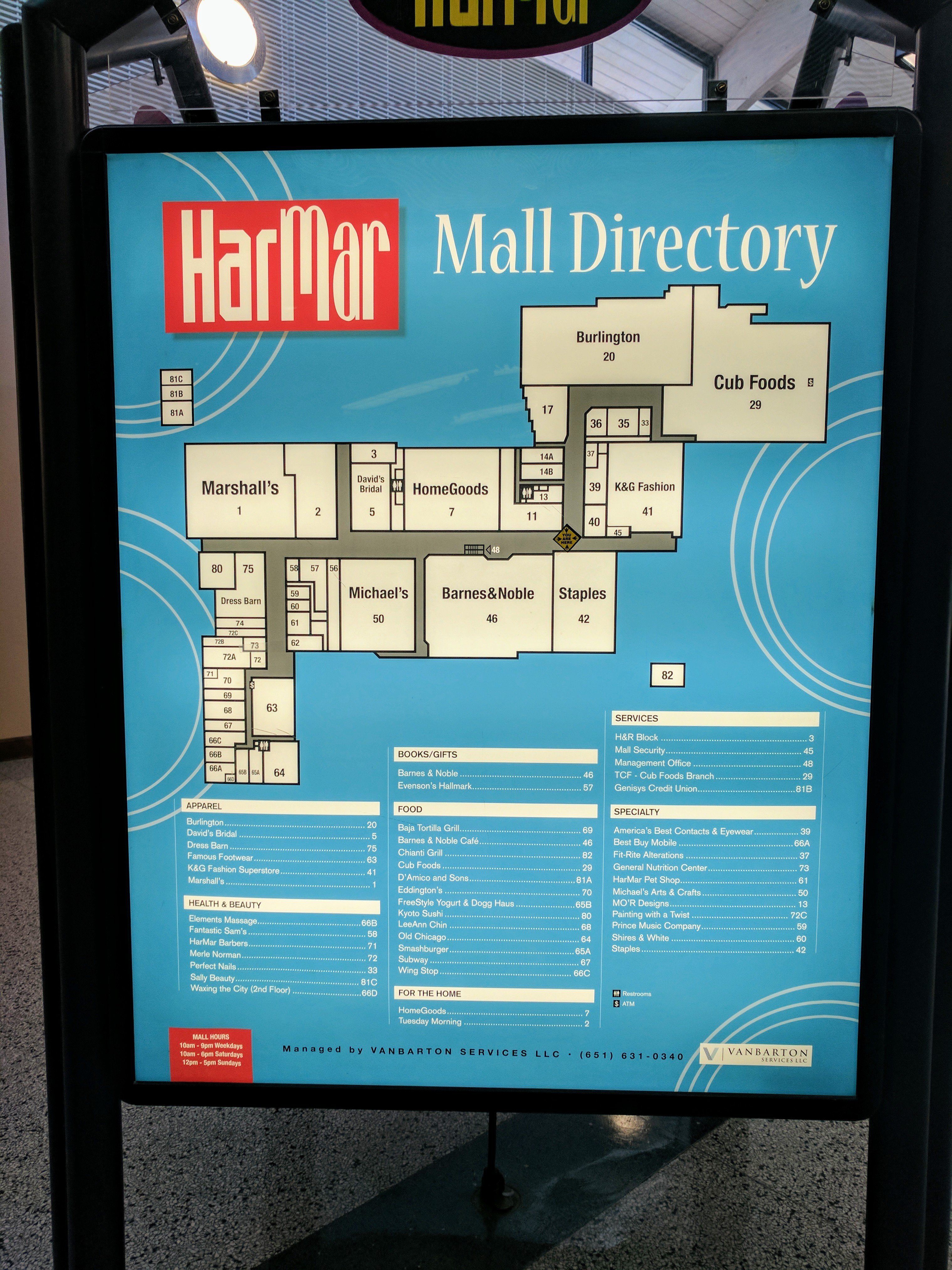 Directory of the Har Mar Mall in Roseville, Minnesota